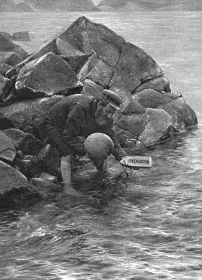 Chapter 1, a man dispatching the "St Kilda mailboat".